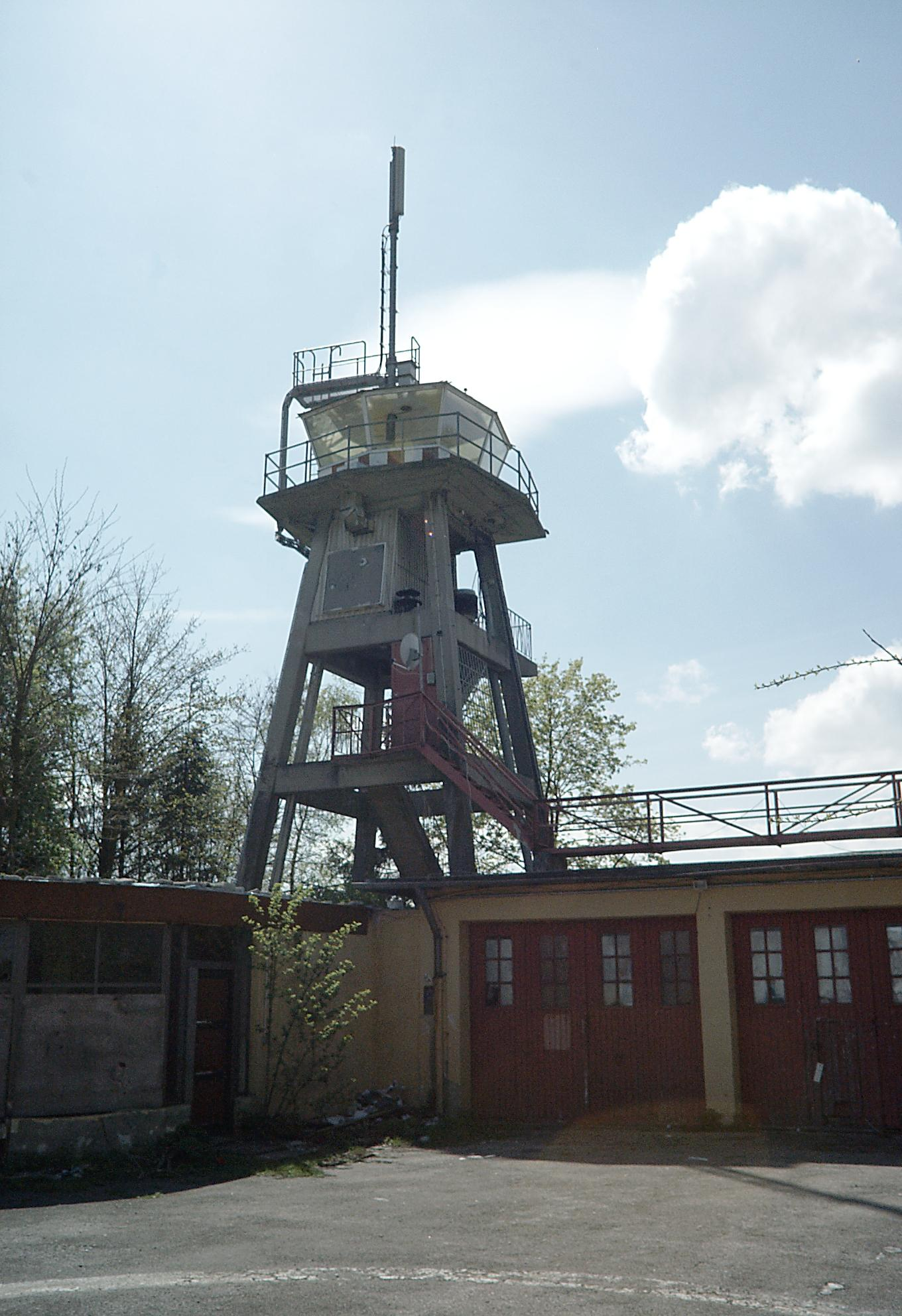 the old tower of Oberschleißheim airport